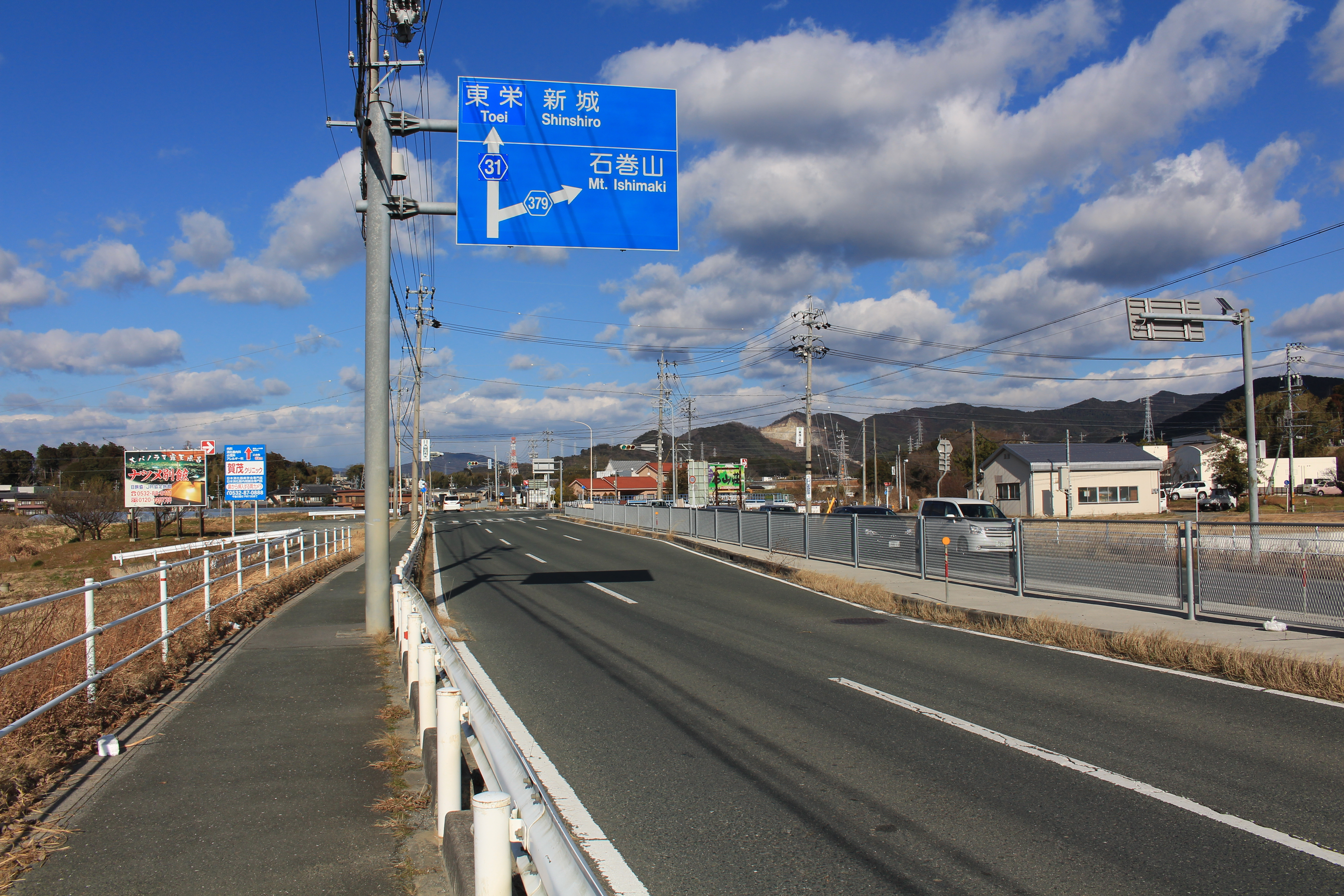 Aichi Prefectural Road Route 31, Ishimakitozanguchi in Toyohashi, Aichi prefecture, japan.